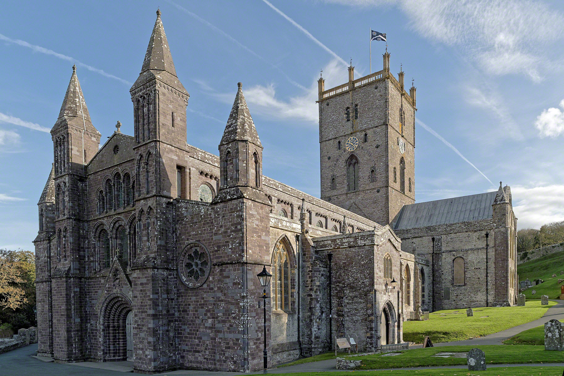 St Davids Cathedral Pembrokeshire Wales - west end, south transept & tower flying the Deans flag